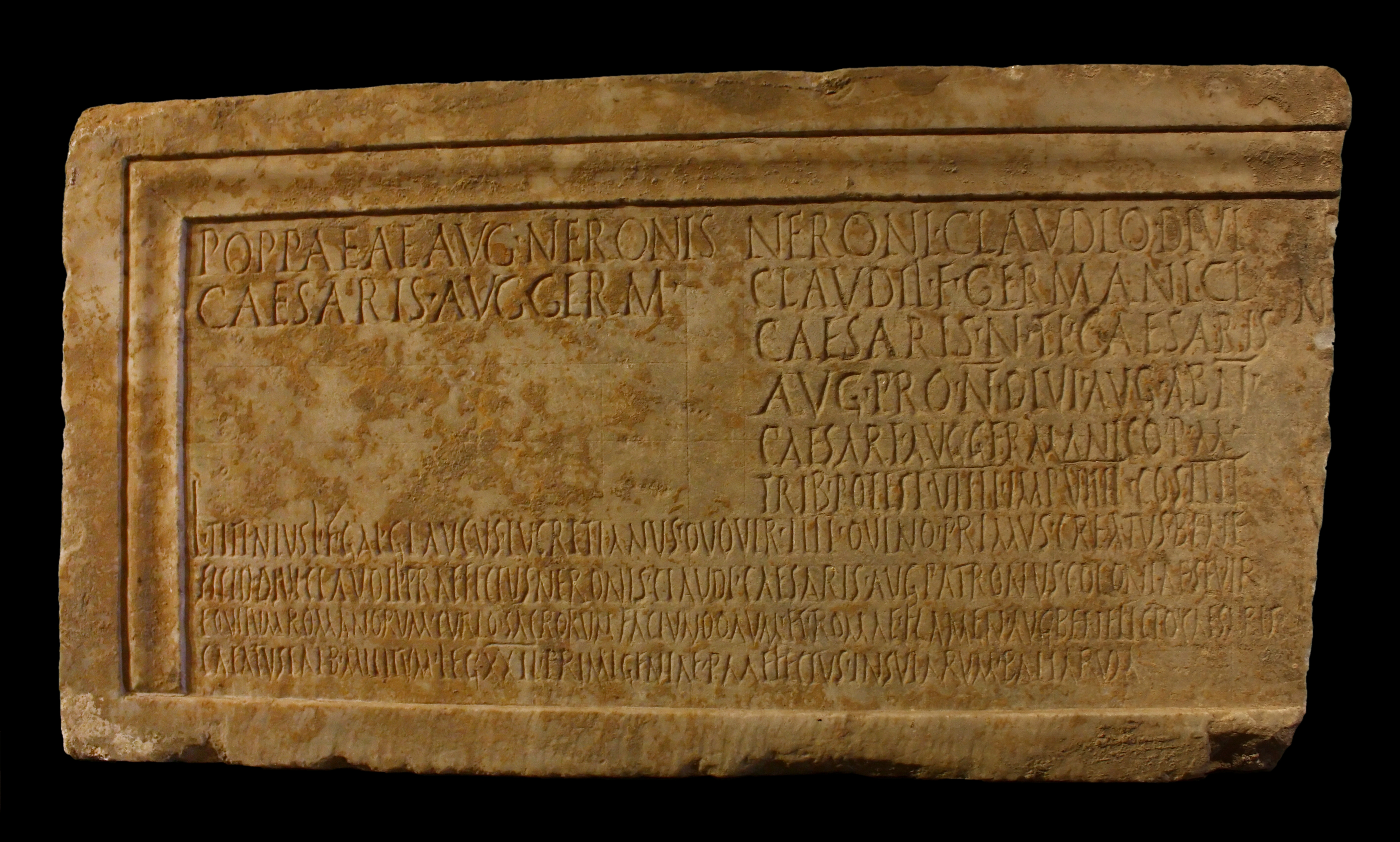 Inscription of L. Glaucus Lucretianus with dedication to Nero, Poppaea and perhaps to their daugther, the Deified Claudia Bardiglio marble from Luni, theatre C. AD 65 La spezia, Museo del Castello di San Giorgio, "Ubaldo Formentini" Archeological Collection.